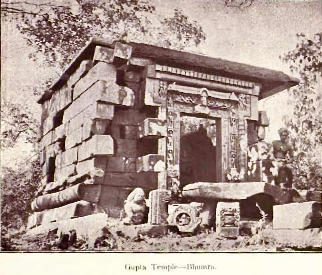 This is one of the oldest stone temple dedicated to Shiva of Hindu tradition. Dated to the 5th century, the temple has a square plan for the sanctum, mandapa and overall complex. When discovered over 1917 - 1919, it was in ruins, the sanctum was covered with forest and there was mound in front. Excavation of the mound yielded broken pillars, temple parts and desecrated statues with their face and limbs chopped off. The sculpture and walls carvings are intricate. Many of its ruined parts and statues are now at major museums in India and elsewhere. The temple is the source of one of the oldest known Ganesha relief. The temple sanctum has an ekamukha linga, much studied by scholars. Additionally, the temple includes Durga in her Mahishasura-mardini form, Surya, Ganesha, Kartikeya, Kama, and other Hindu gods and goddesses. This is a photograph of a personal copy of the plates in an Archaeological Survey of India progress report published in 1920, whose copyrights have expired worldwide. Any rights I have, I donate it to wikimedia under its Creative Commons 4.0 guidelines.